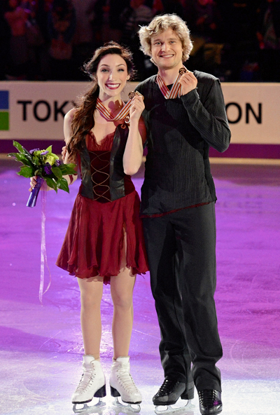 Meryl Davis and Charlie White USA Figure Skating category dance during the victory ceremony after winning their gold medal on ISU World Figure Skating Championships 2013 in London/Ontario Canada